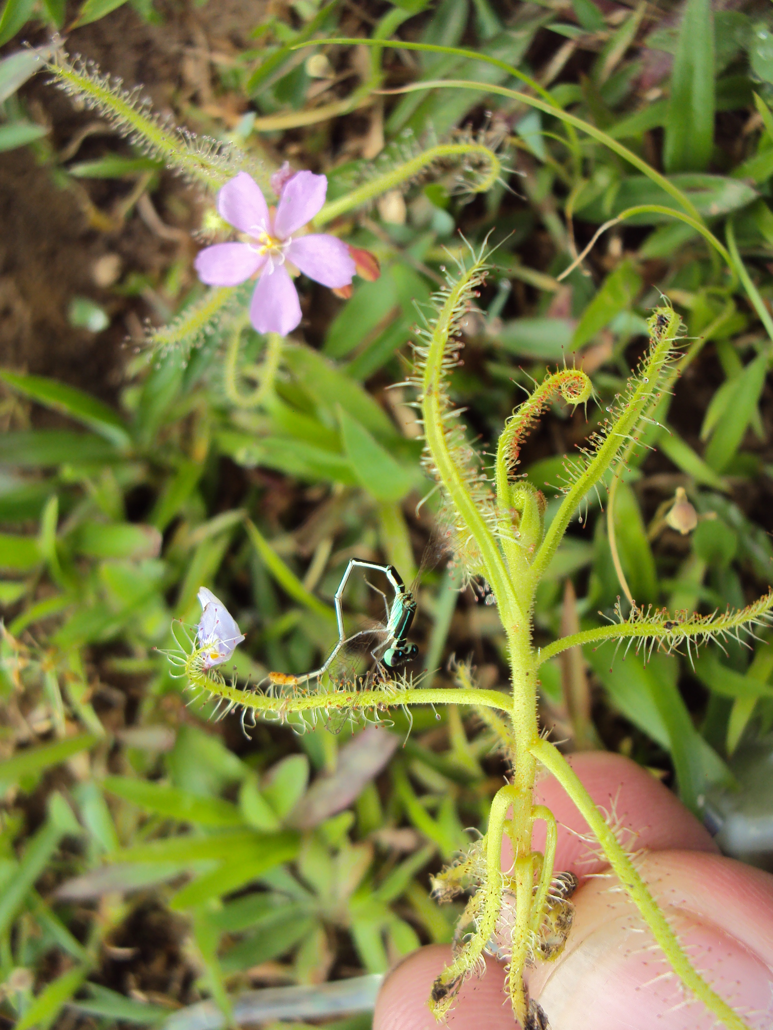 Pygmy dartlet caught be Drosera indica